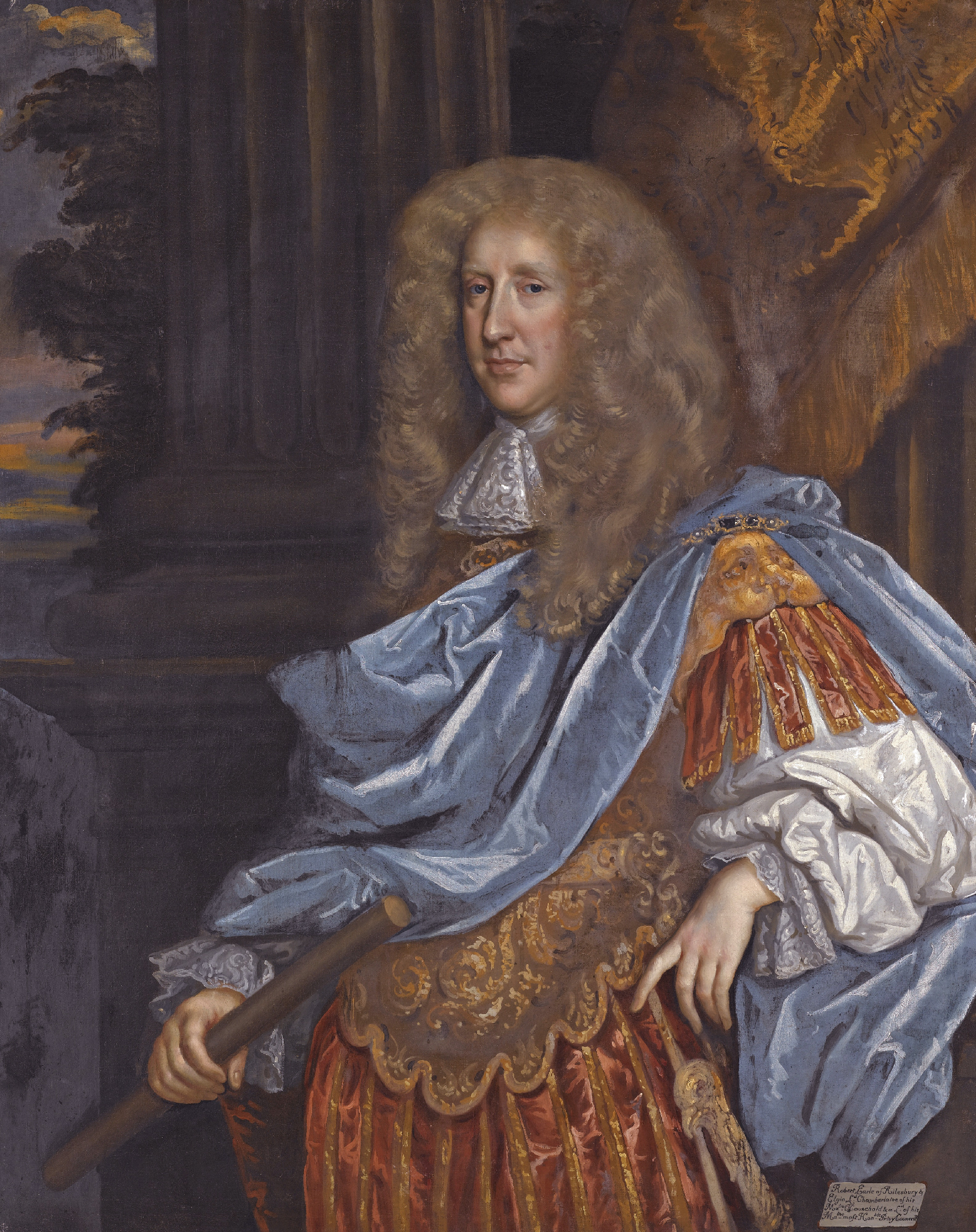 Robert Bruce, 1st Earl of Ailesbury and 2nd Earl of Elgin (1626-1685) in Roman armour